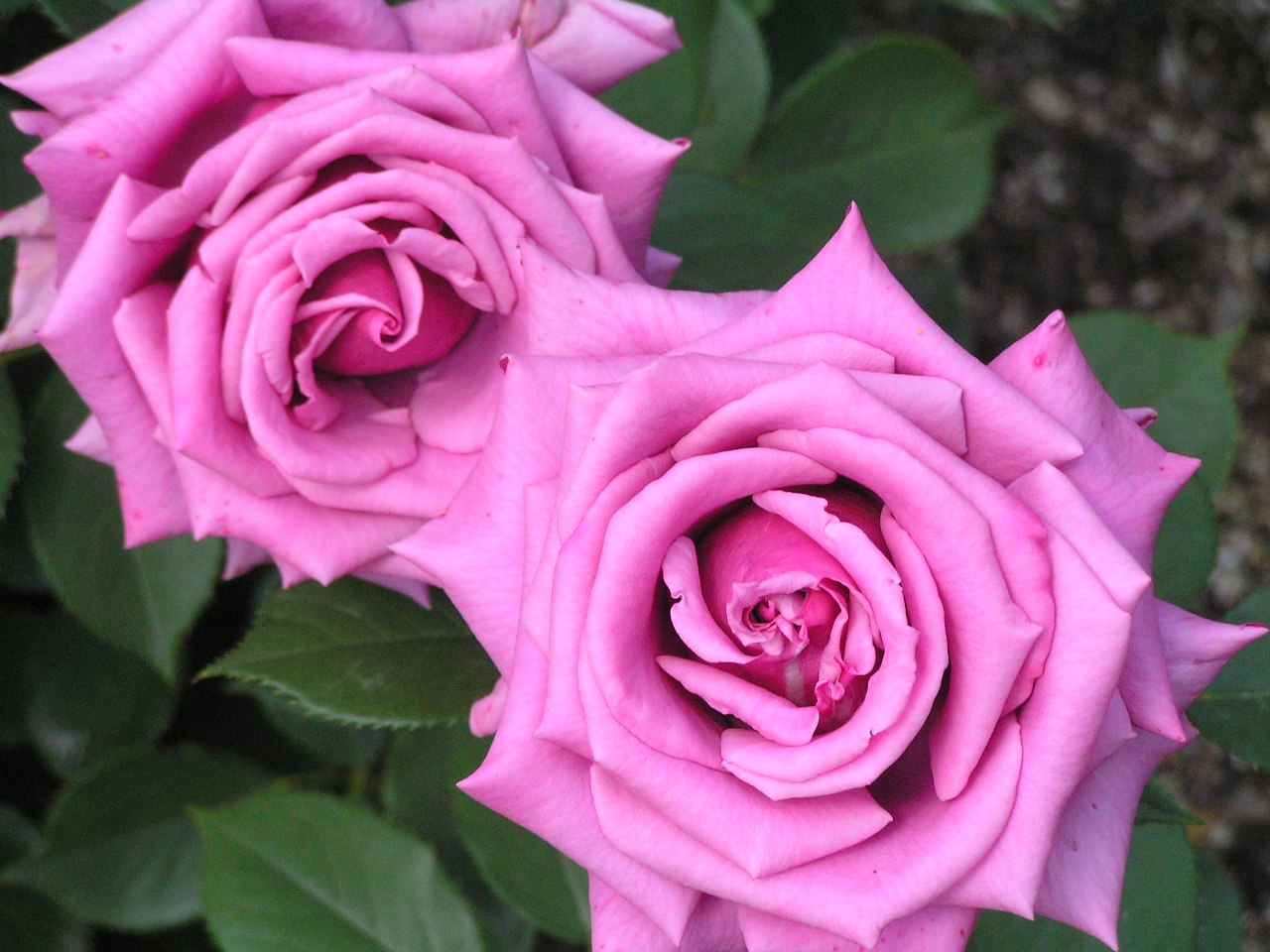 Kitaharima rose garden park, pink roses